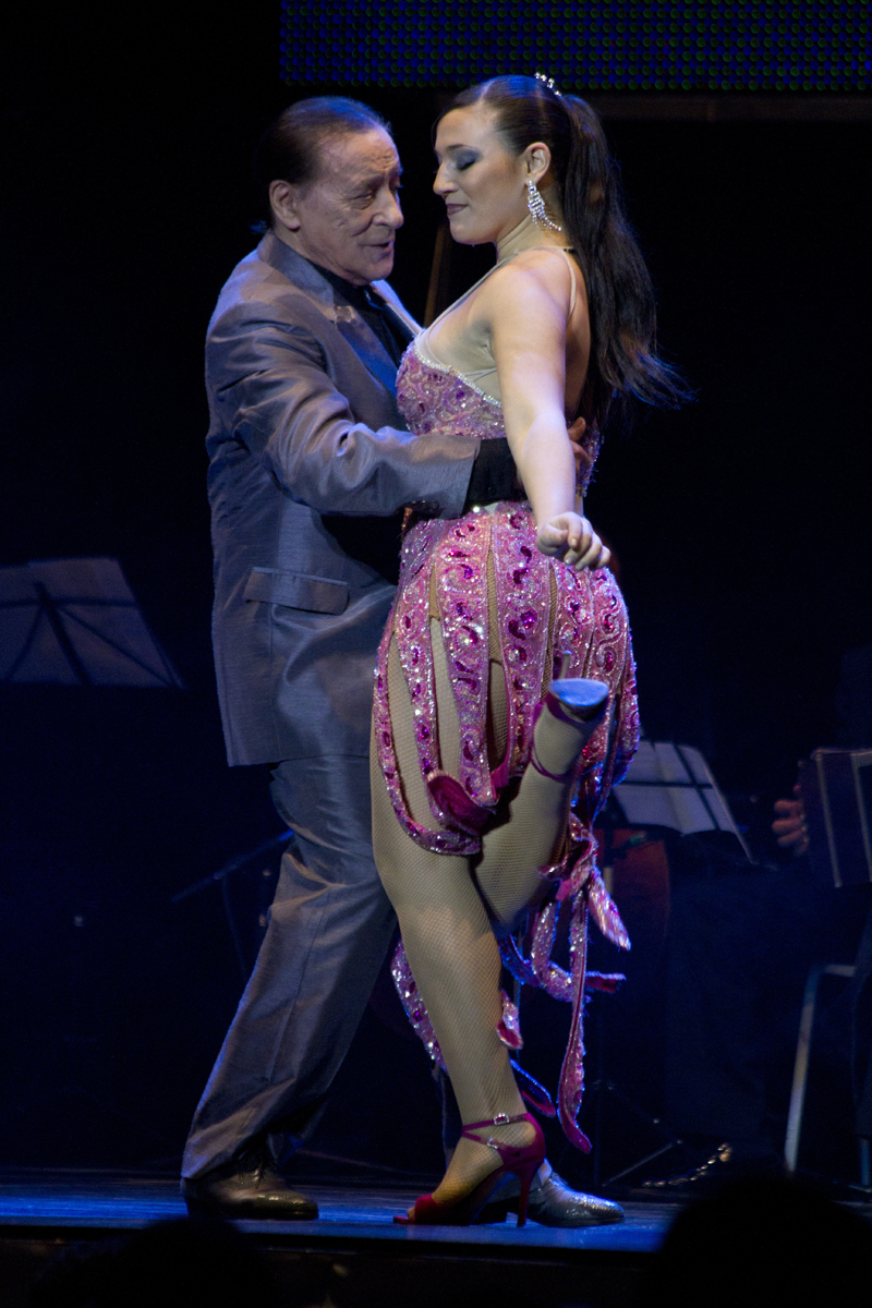 Tango Dance World Championship 2011. Como broche de oro Juan Carlos Copes bailó con su hija, Johana Copes. (Foto: Estrella Herrera)